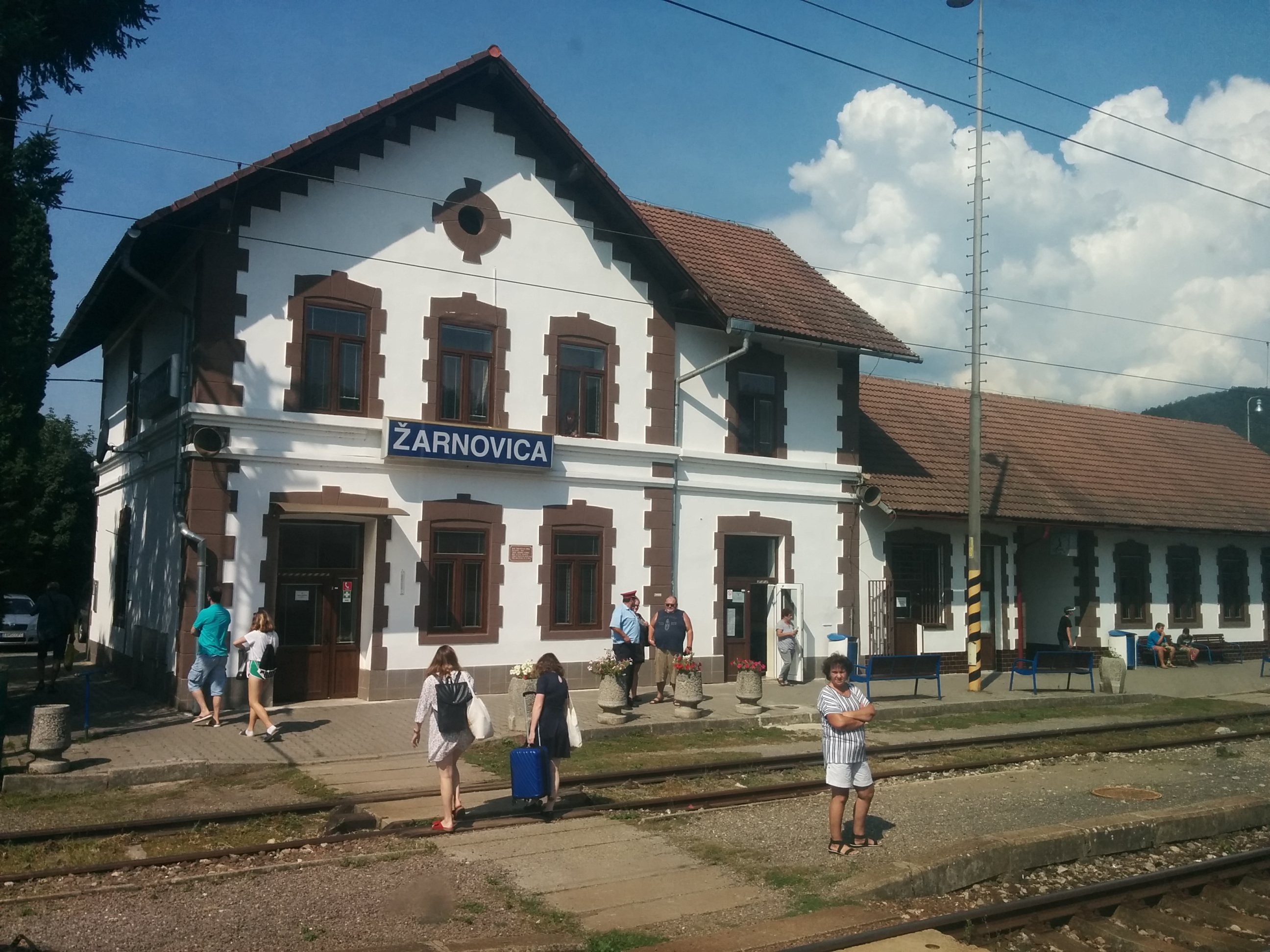 Railway station in Žarnovica, Slovakia. August 2019.